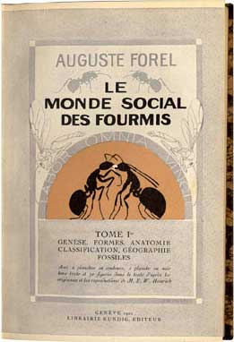 Cover of a 1923 book about ant behavior by Auguste Forel.